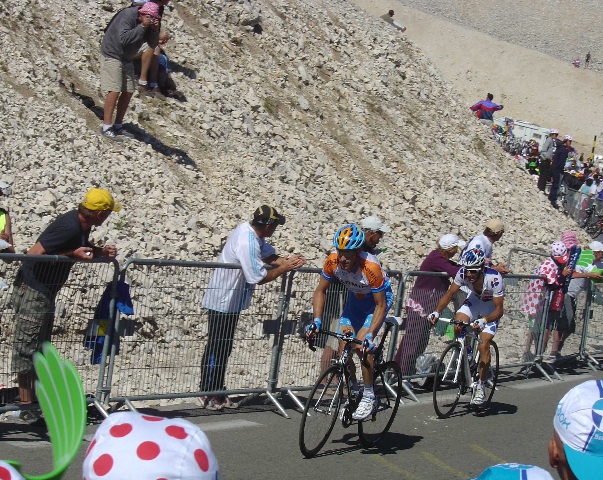 Christian Vandevelde (front) and Christophe Le Mevel during stage 20 of the 2009 Tour de France 2009 on the Mont Ventoux